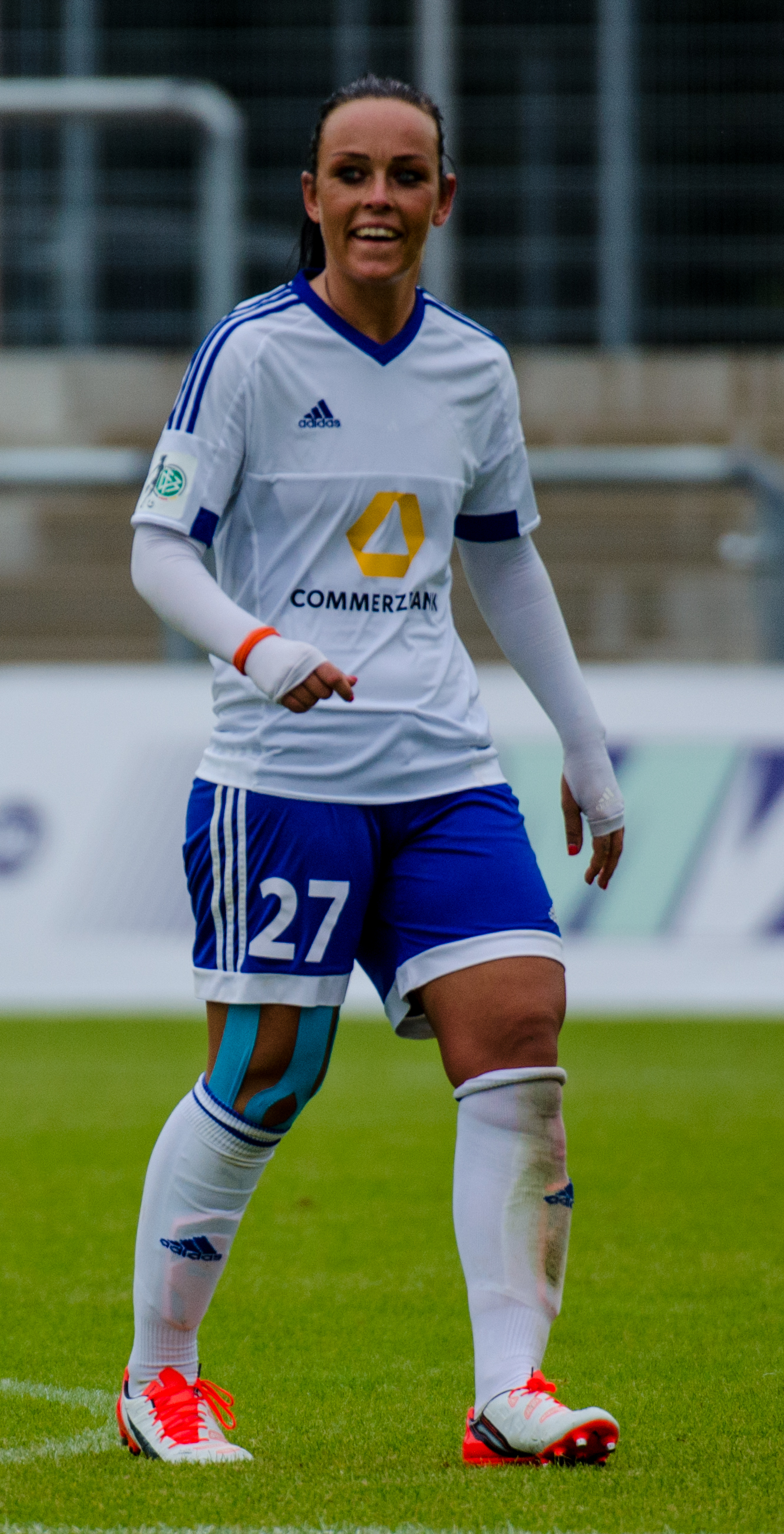 Match of the German Women's Football Bundesliga between 1.FFC Frankfurt and 1. FFC Turbine Potsdam, 2015-09-13